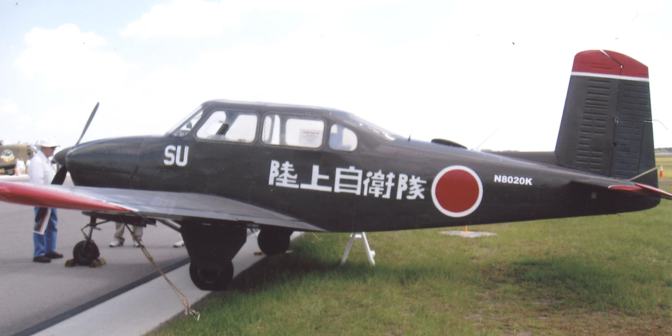 Fuji LM-1 Nikko in Japanese JASDF markings at Lakeland Florida